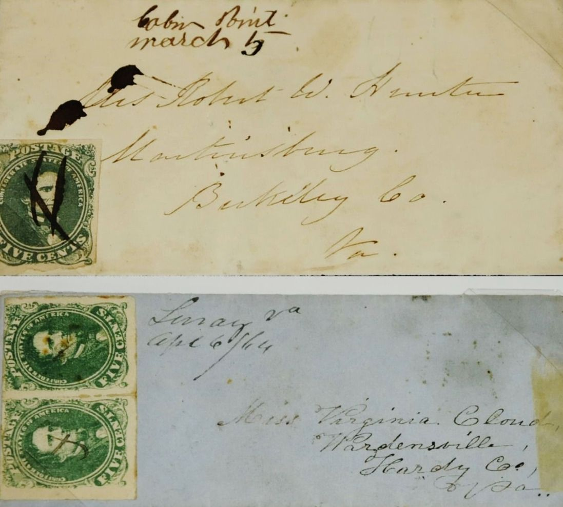 Two letters bearing Jefferson Davis 5-cent stamps delivered through the Confederate postal system in West Virginia, the top letter to Andrew W. Hunter in Martinsburg, the bottom letter delivered in Hardy County.